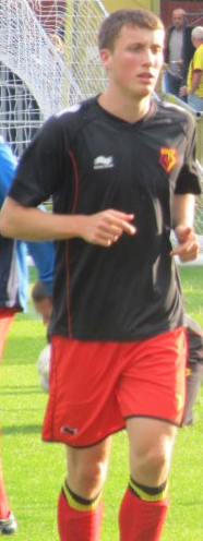 Forsyth warming up before a game